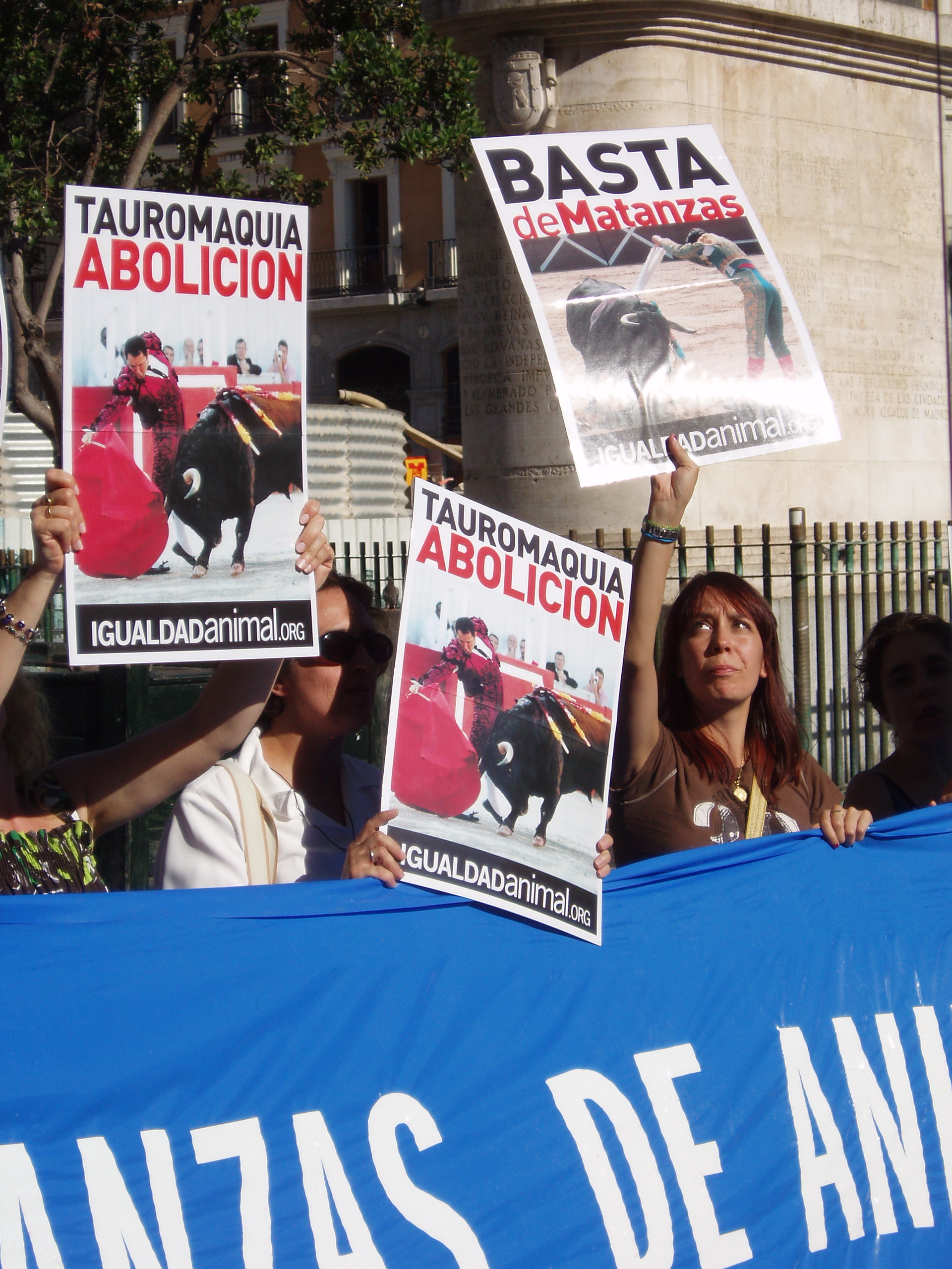 Protest against bullfighting (Madrid)